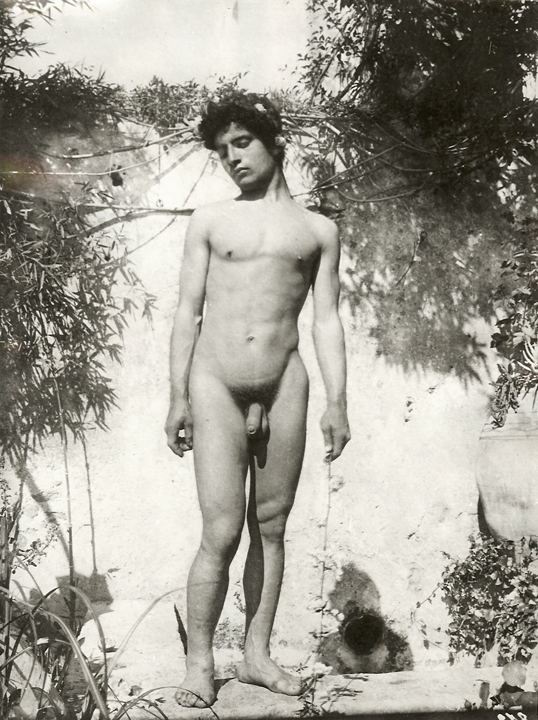 Wilhelm von Gloeden (1856-1931). Catalogue number: 0872.